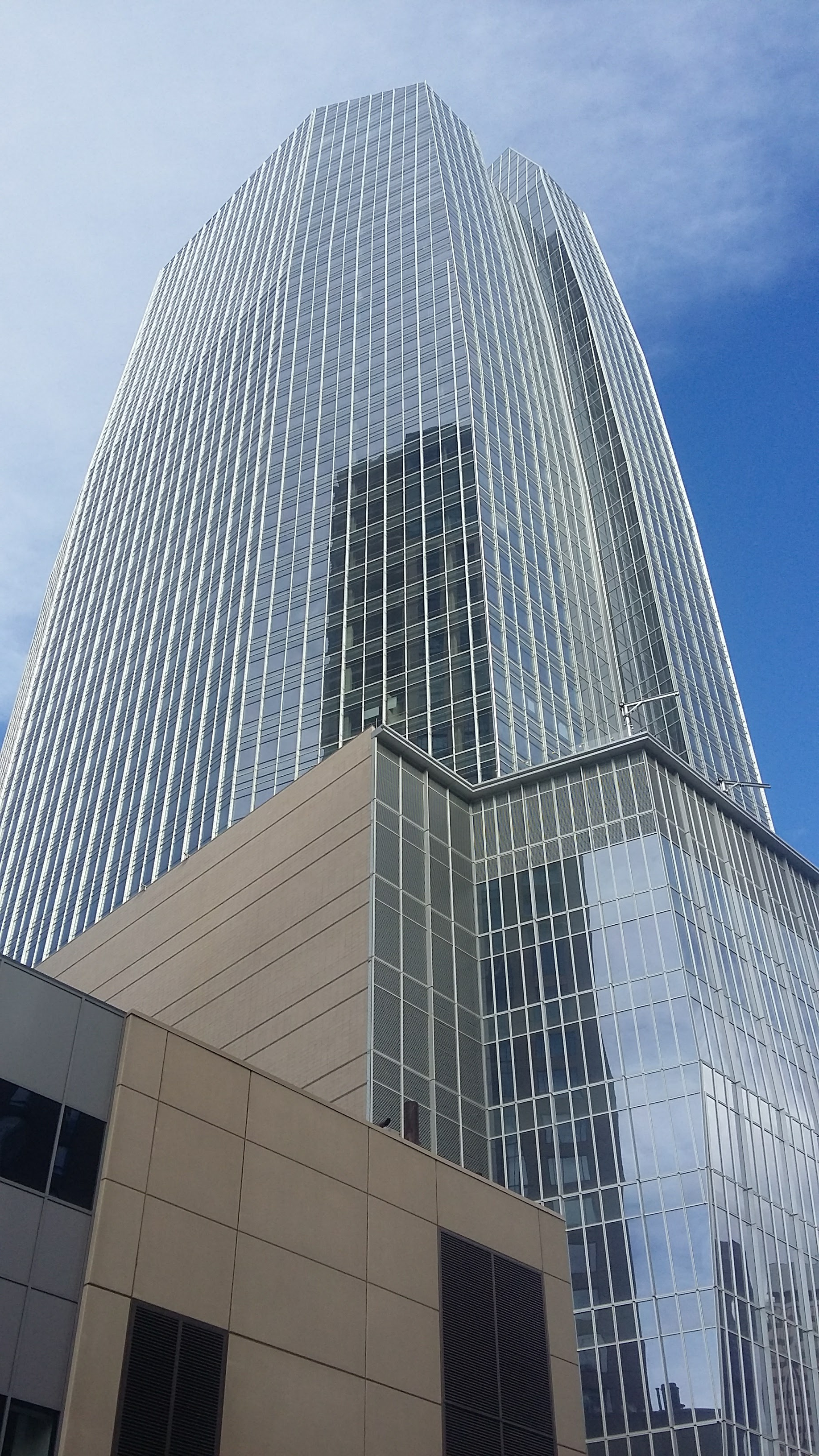 1144 Fifteenth, south corner looking up, 2017-11-24